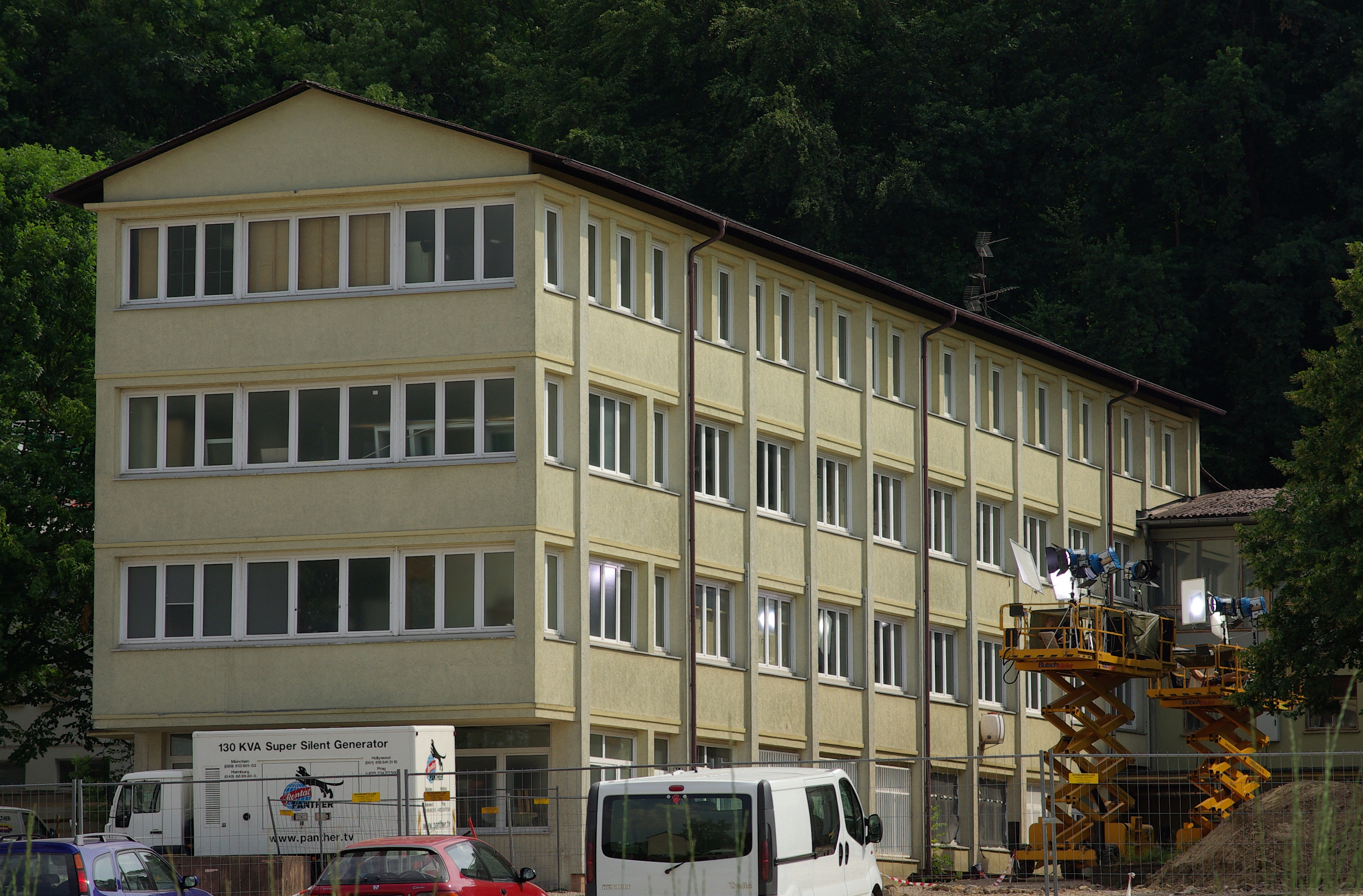 A shooting location of the Tatort crime television series in Baden-Baden.